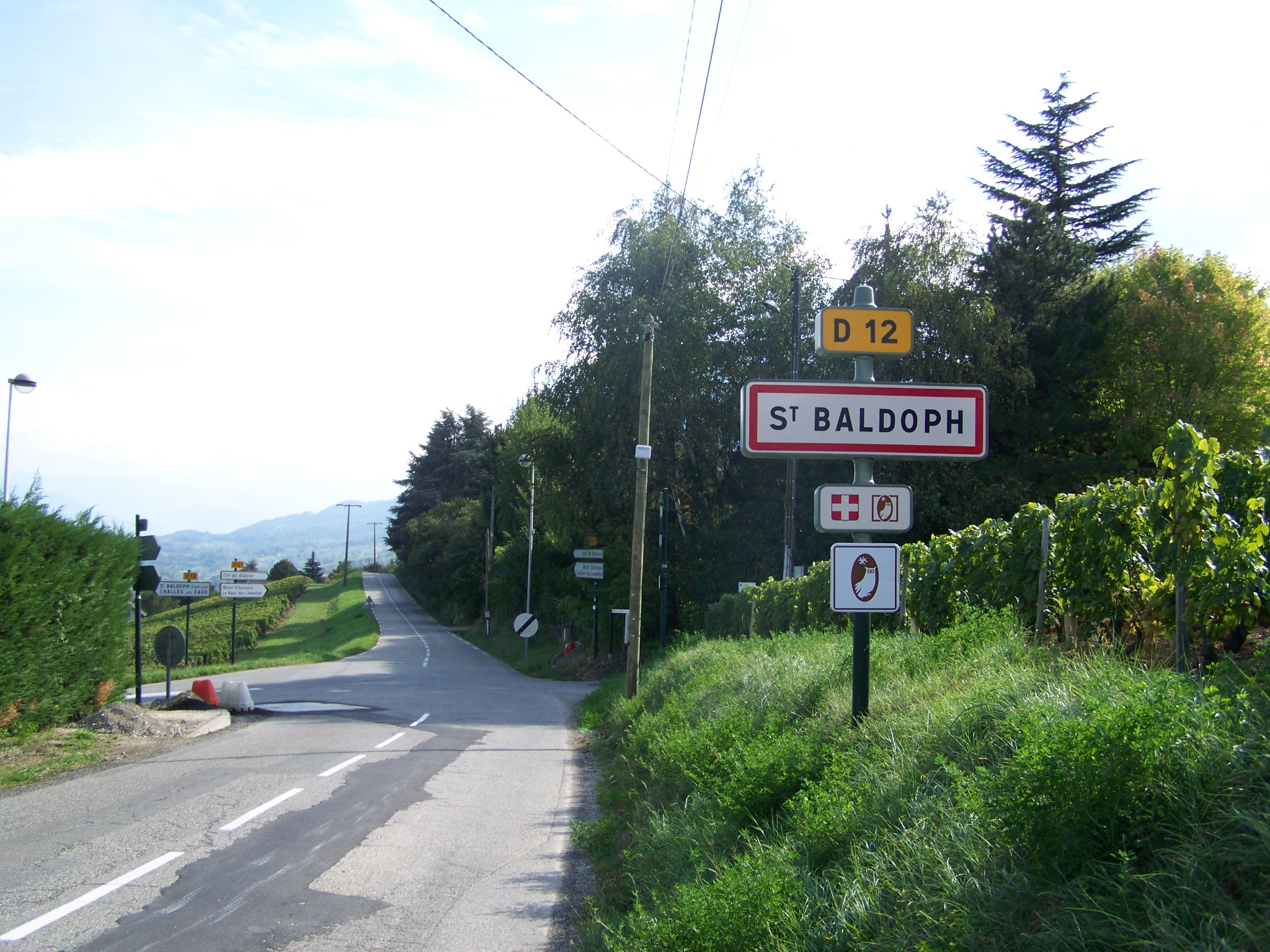 Sign among the wineyards welcoming to Saint-Baldoph, commune near Chambéry in Savoie, France.